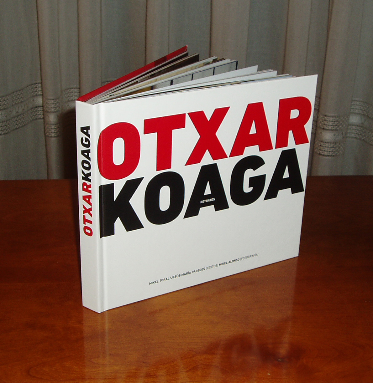 Picture of "Retratos de Otxarkoaga" book.